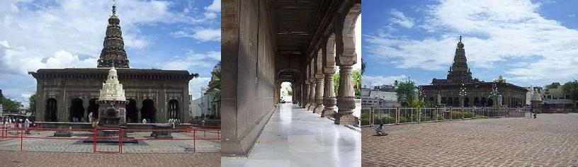 Sharana Basaveshwara Temple Gulbarga / Kalburgi Author : Manjunath Doddamani, Gajendragad / Hubli, Karnataka(North), India.